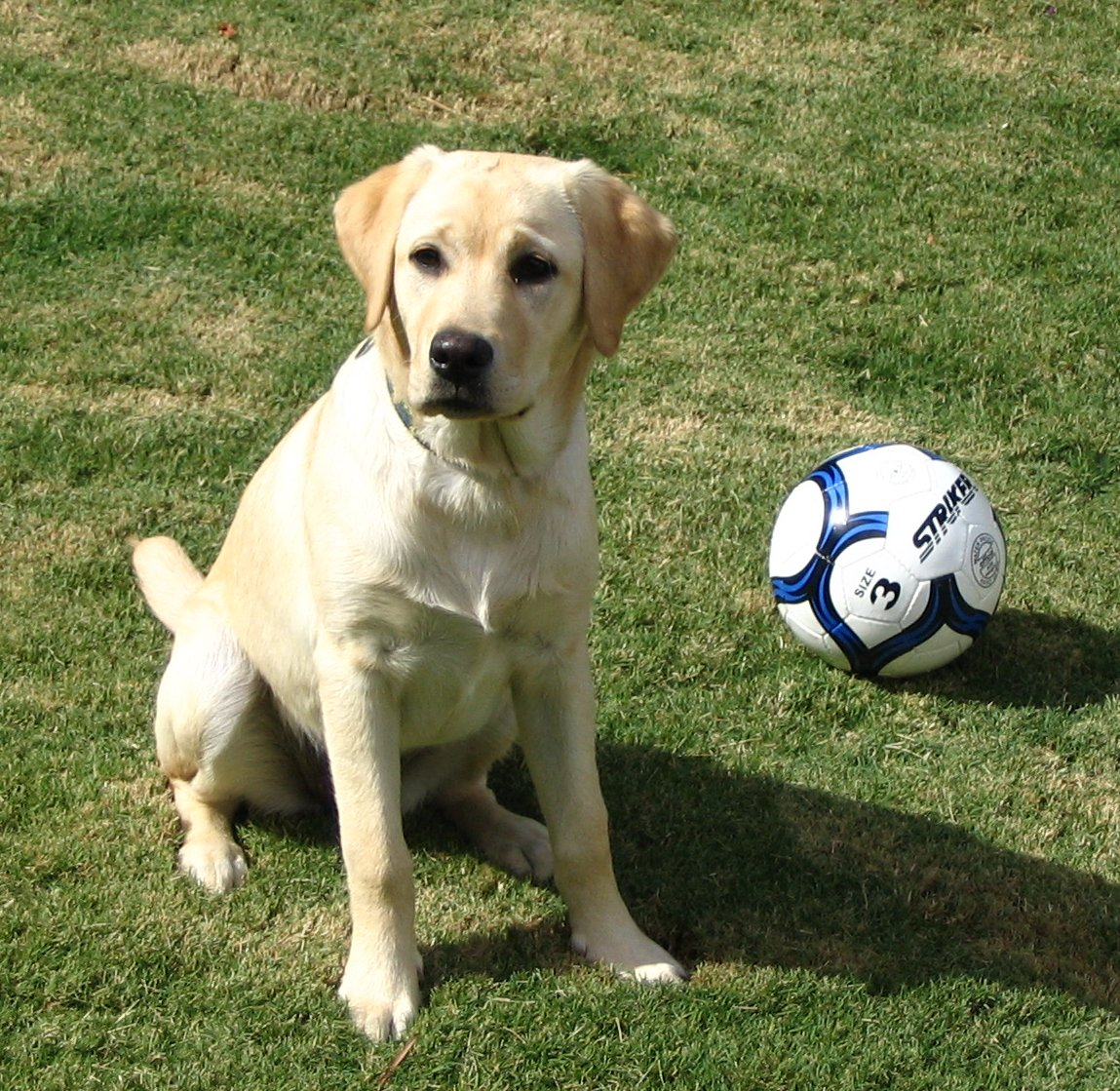 Female 5 month old pedigree yellow labrador retriever.